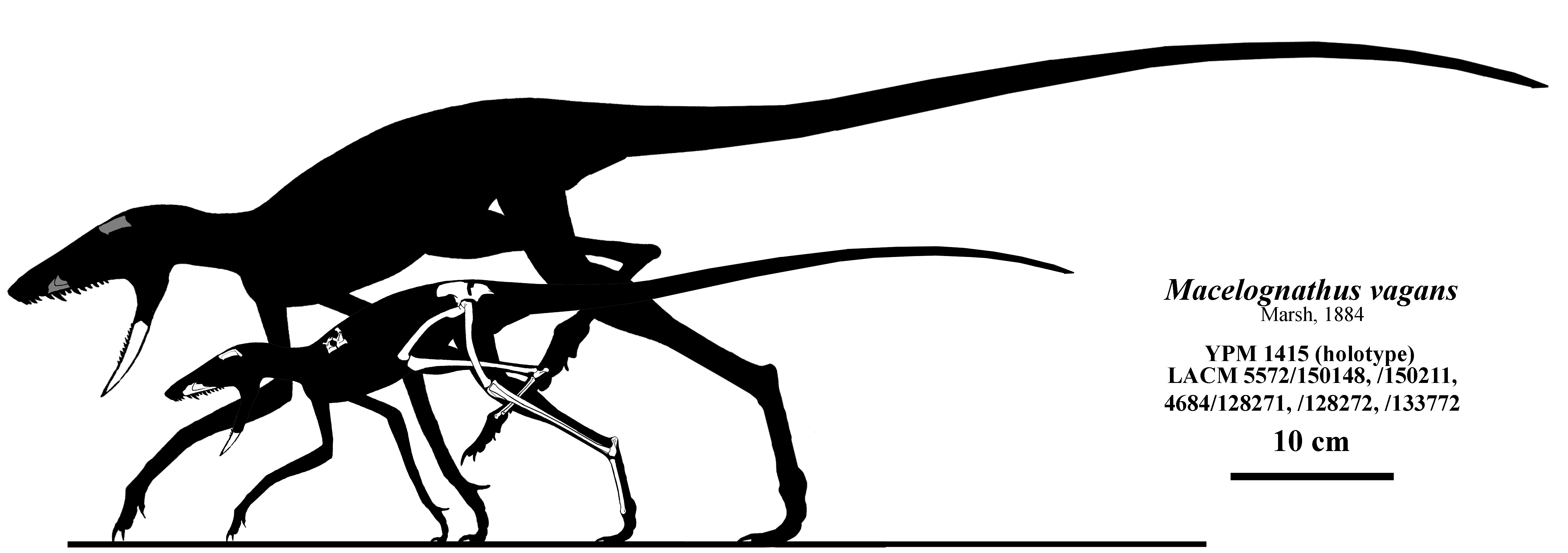 Skeletal reconstruction of Macelognathus vagans.